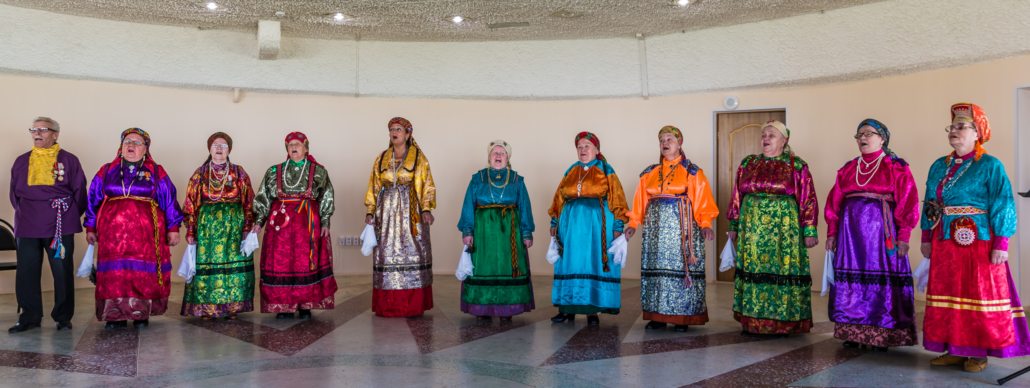 Choir in the National Cultural Centre, Lovozero, Kola Peninsula; the rightmost singer wears a Saami dress, all other singers wear an Izhvatas dress